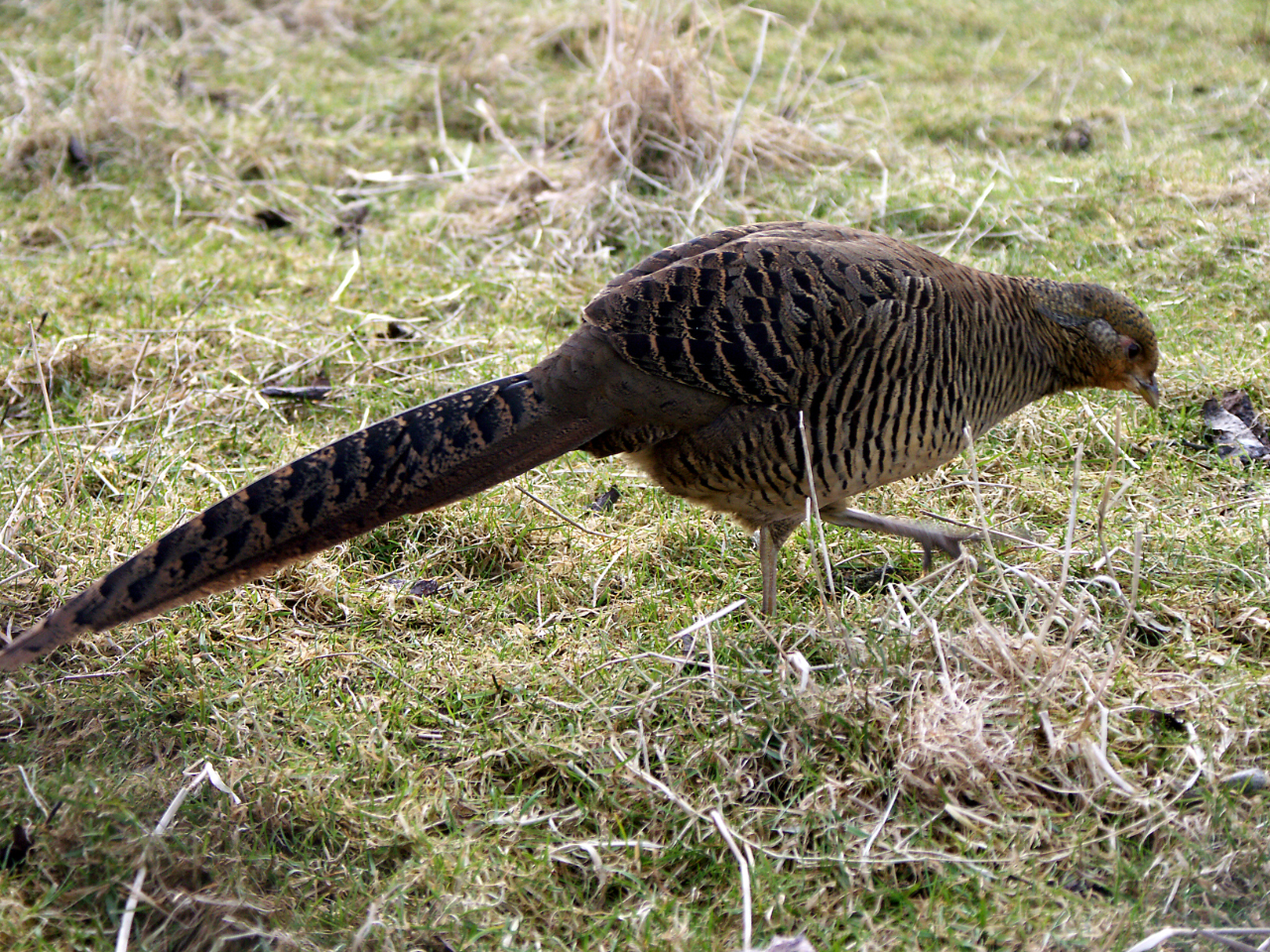 Golden Pheasant (Chrysolophus pictus) in captivity in Svalöv, Sweden